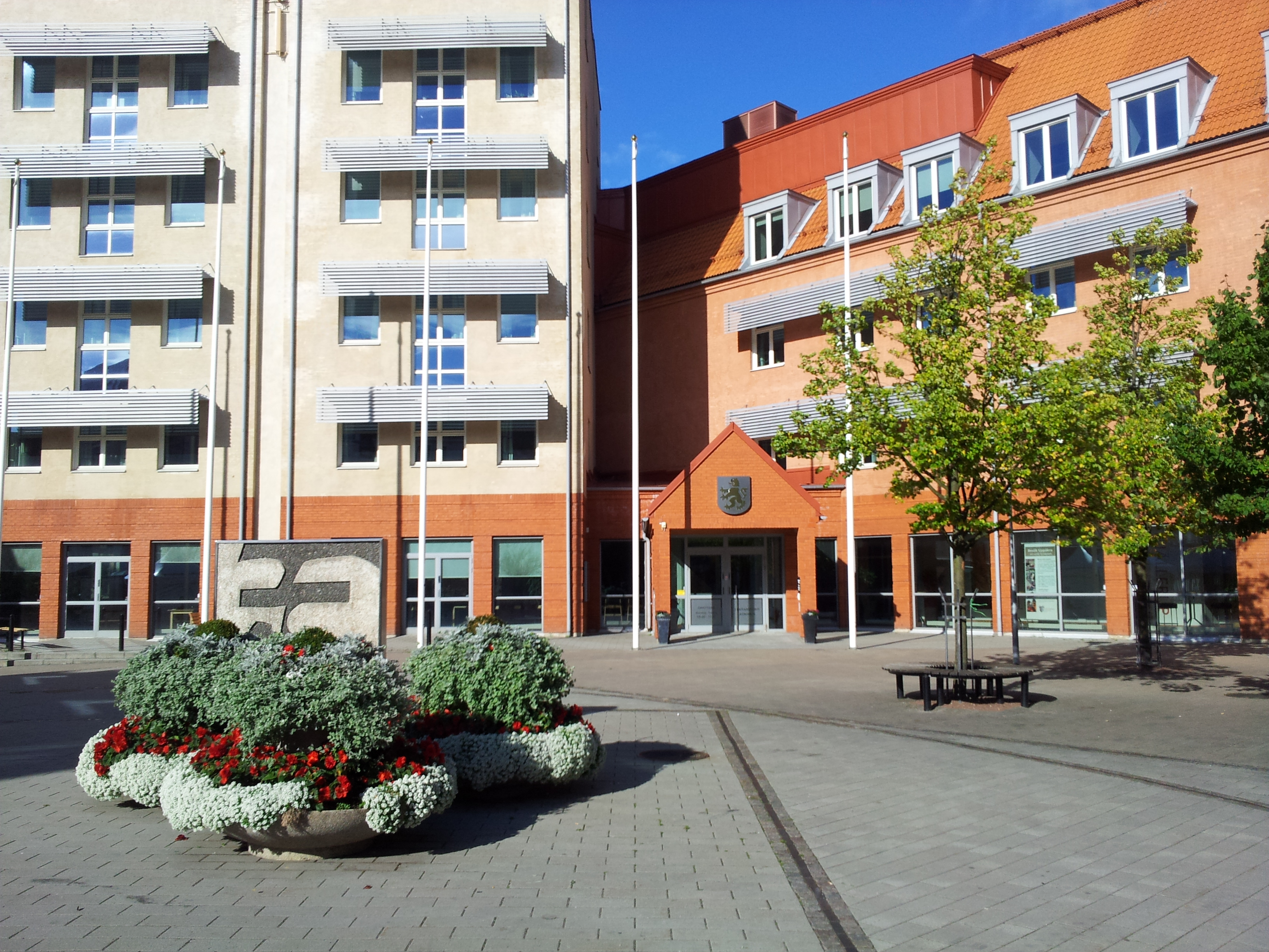 Staffanstorp municipal building